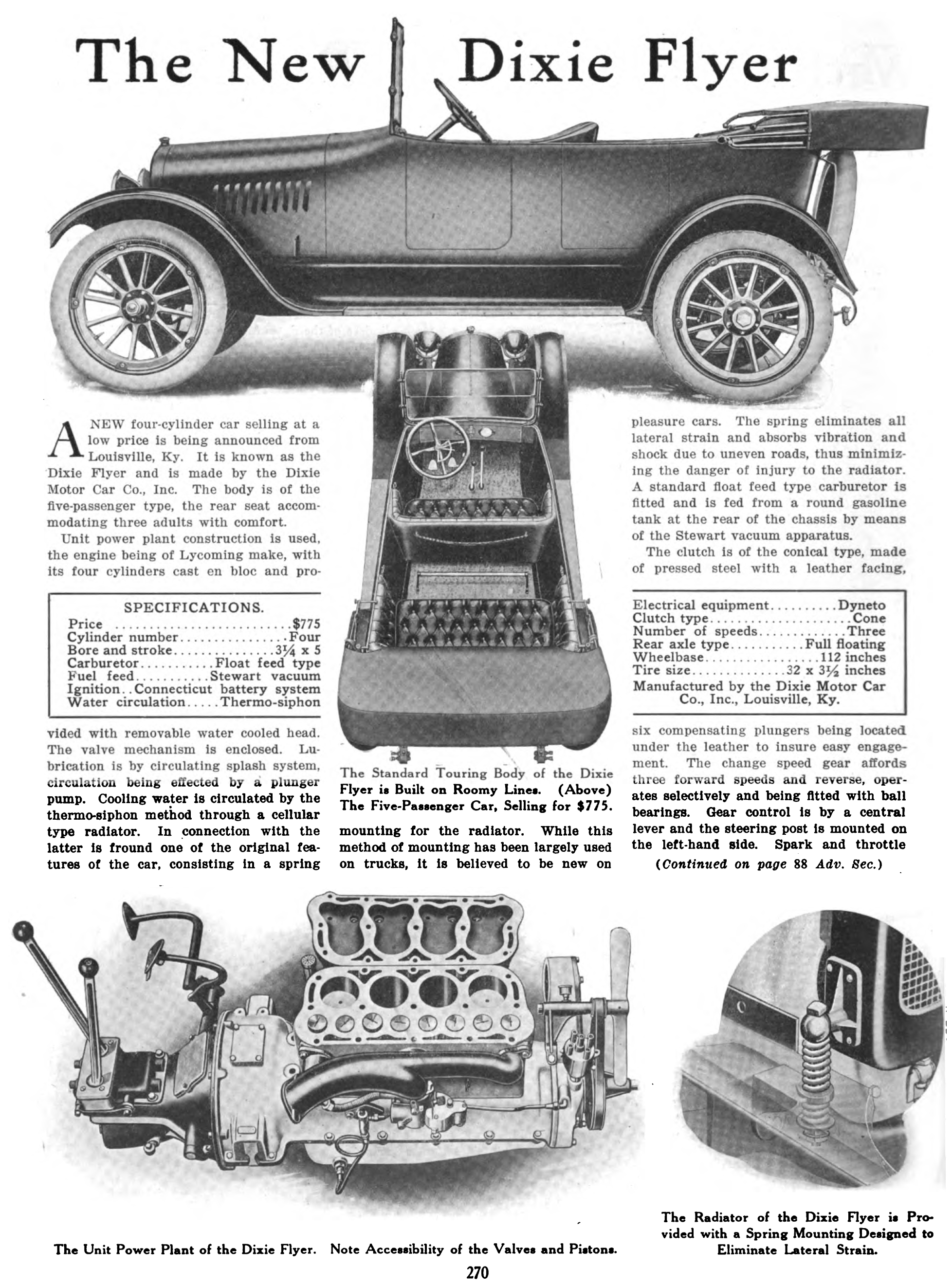 A Dixie Flyer advertisement in Horseless Age, volume 37, number 7, April 1, 1916, page 270. Engine is a Lycoming Four, 165,9 c.i. (2719 cc)